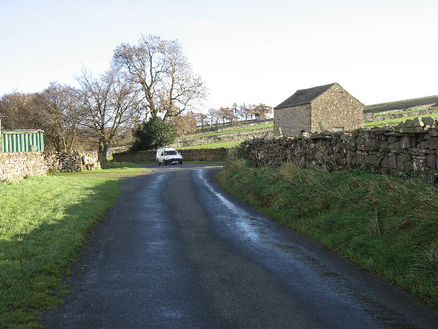 The Road To East Scrafton From West Scrafton.